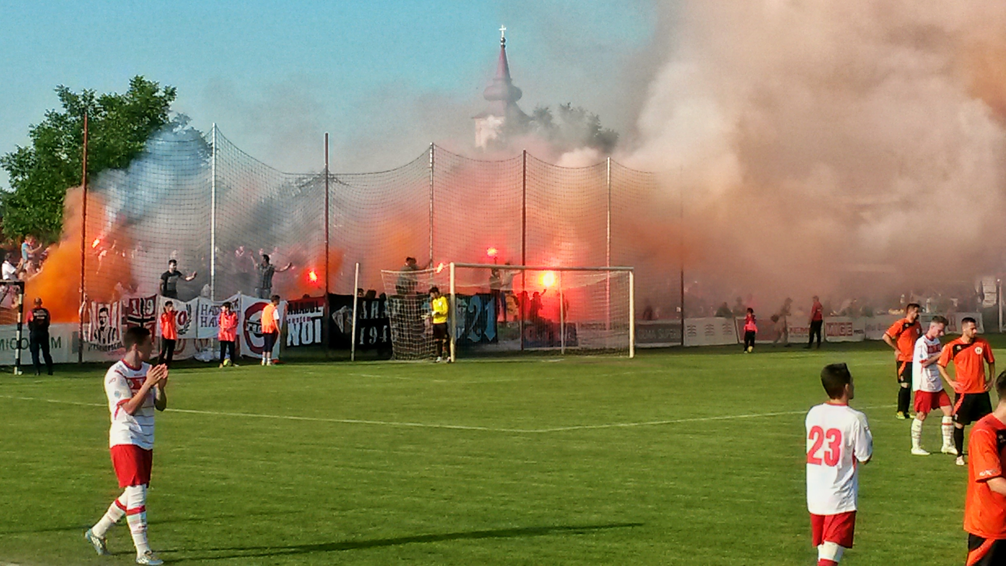 Ultras of UTA Arad football team at the "Motorul" stadium in 2015 2nd league match.